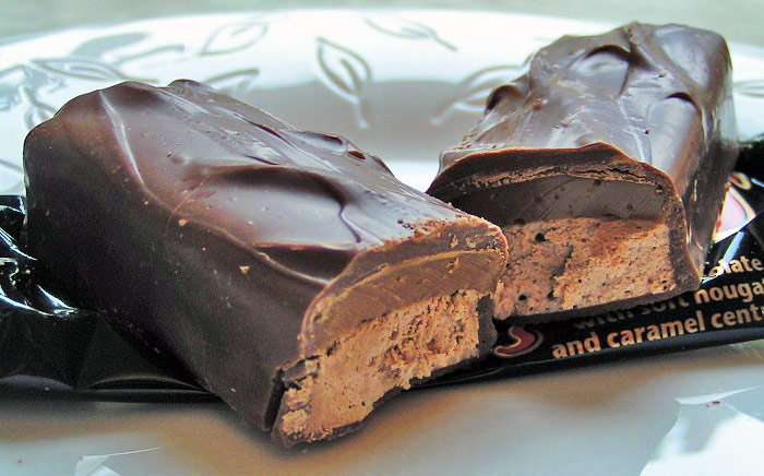 Mars bar (UK style). Photo by sannse.